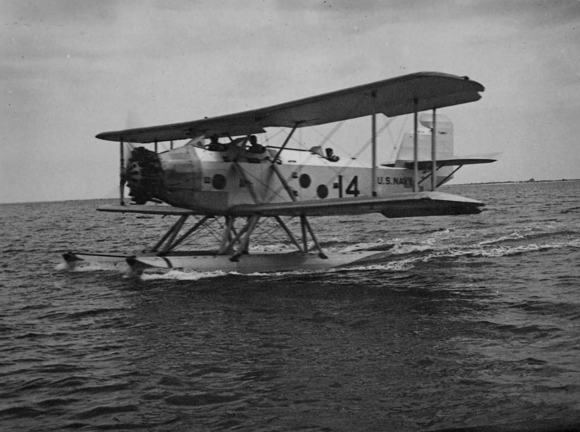 A U.S. Navy Martin T4M-1 seaplane taxis on the waters of Pensacola Bay off Naval Air Station Pensacola, Florida (USA), circa 1930. U.S. Coast Guard aviators trained in these types of aircraft during the prewar era.